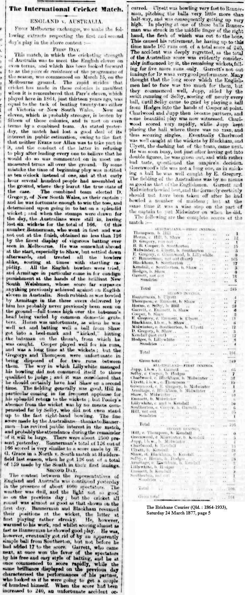 from the National Library Australian newspapers digitisation program which are pre-1955 so no copyright: "The service includes newspapers published in each state and territory from the 1800s to the mid-1950s, when copyright applies."